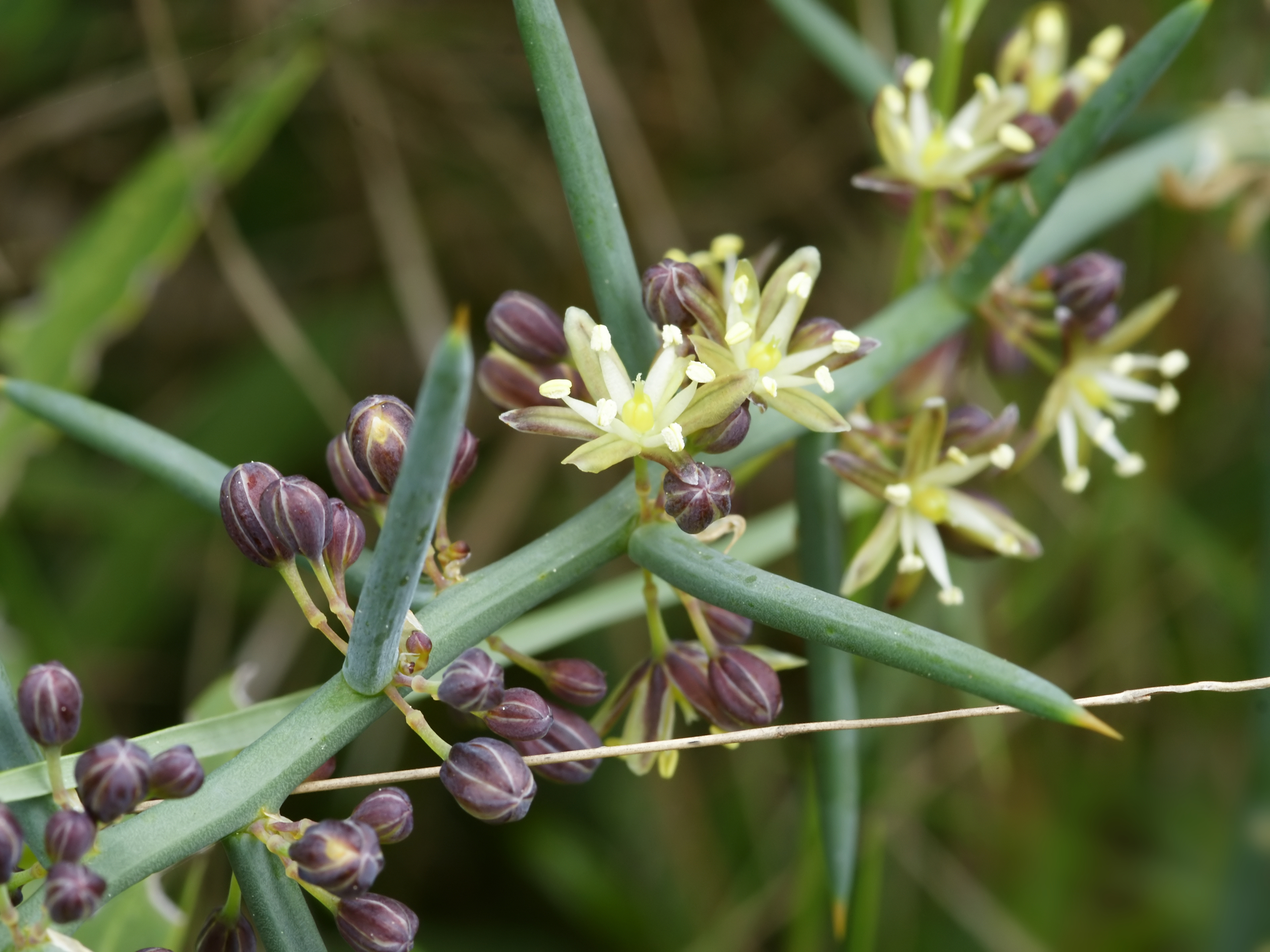 Grey asparagus near Cala Mondragó, Mallorca.